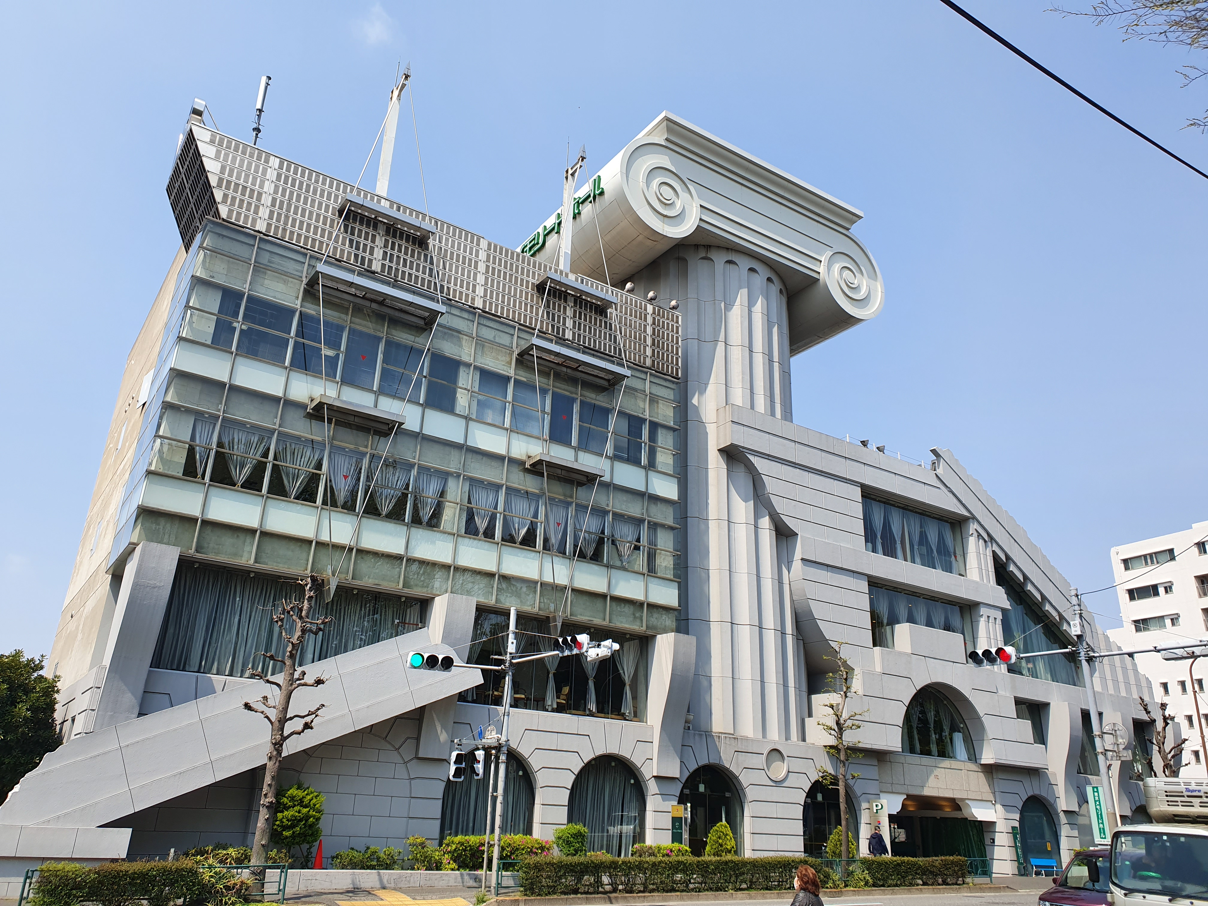 building